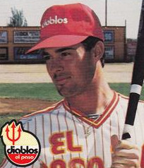 Professional baseball player George Canale